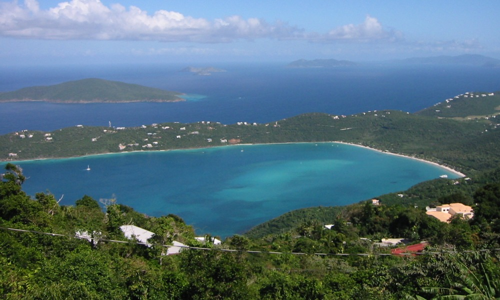 Looking down at Magens Bay from Mountain Top, Saint Thomas, U.S. Virgin Islands.